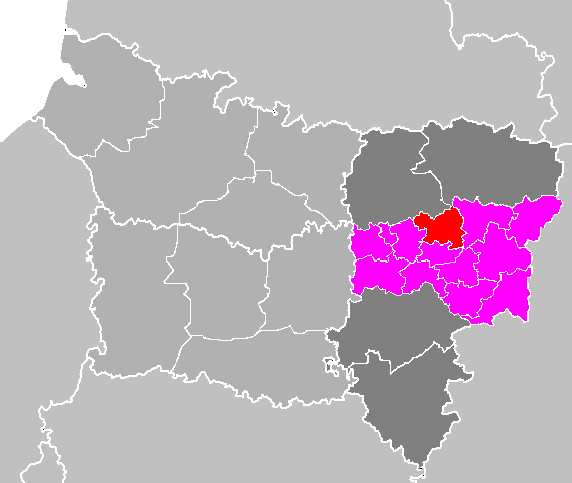 Maps of arrondissements and cantons of France: Arrondissement de Laon